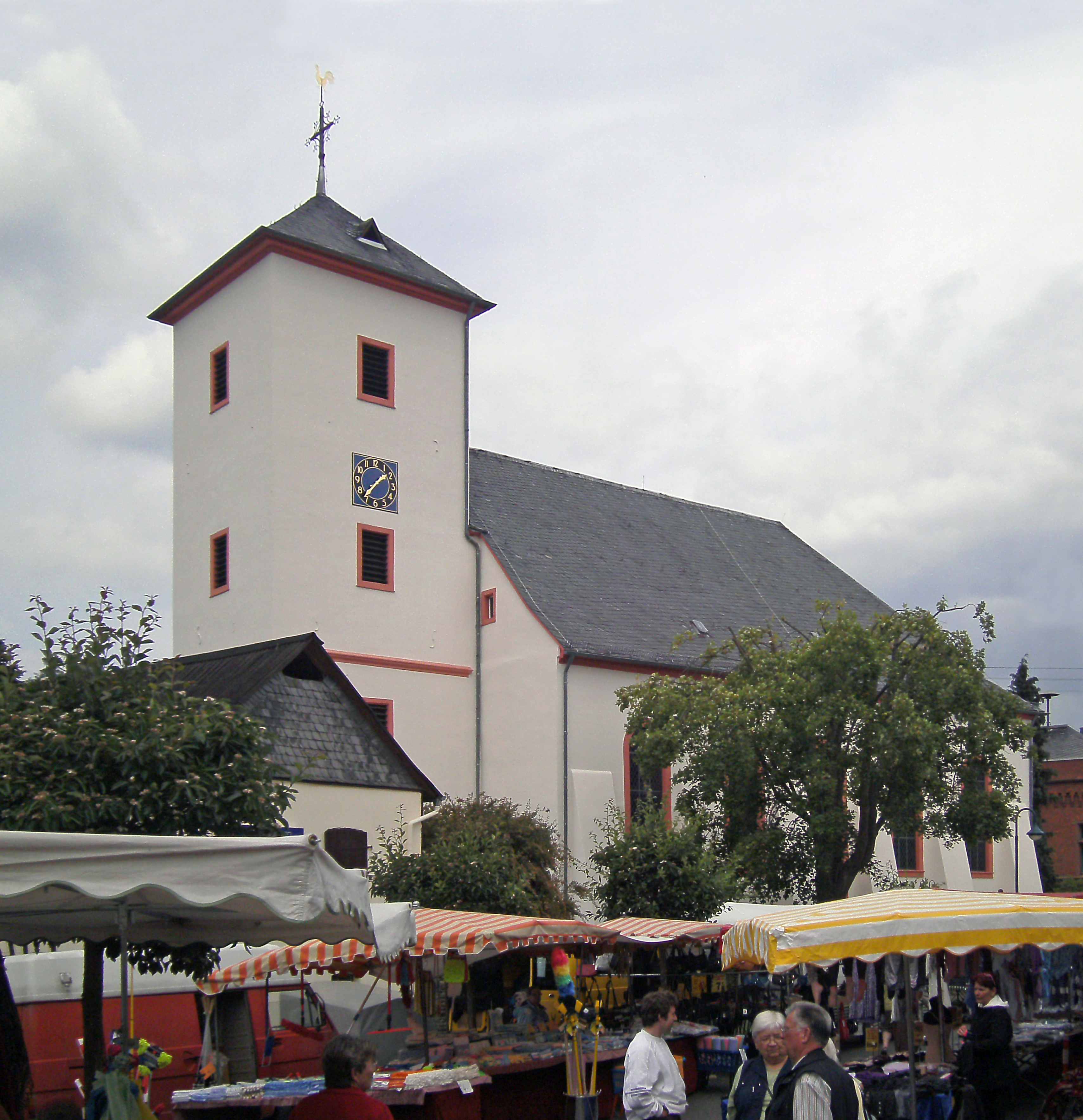 Andreaskirche (protestant church) in Weisel